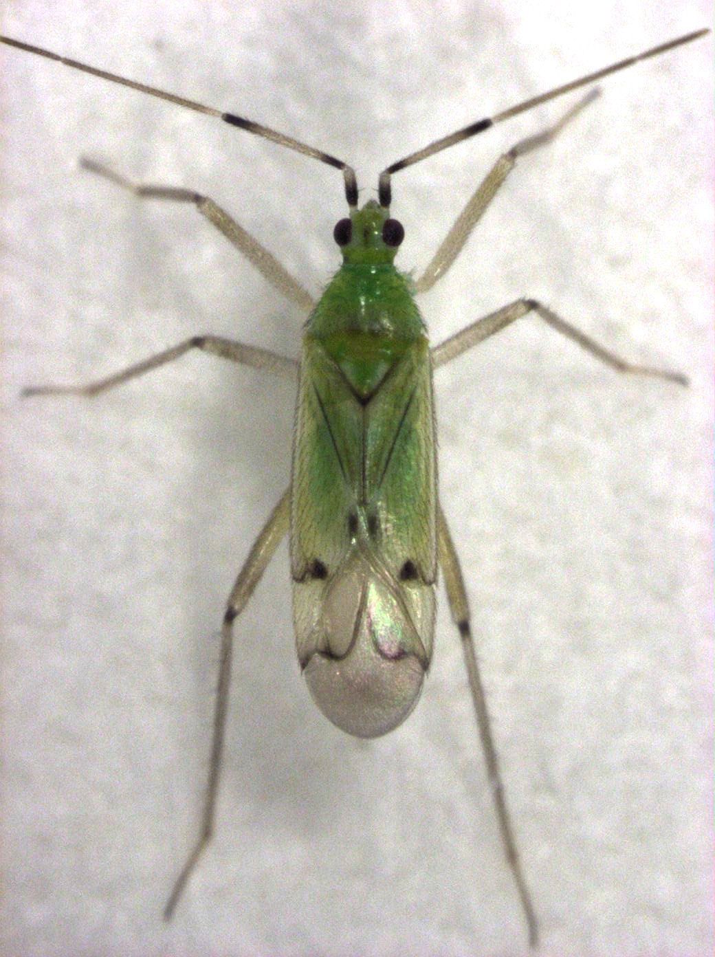 Engytatus nicotianae (Koningsberger, 1903). Adult male.